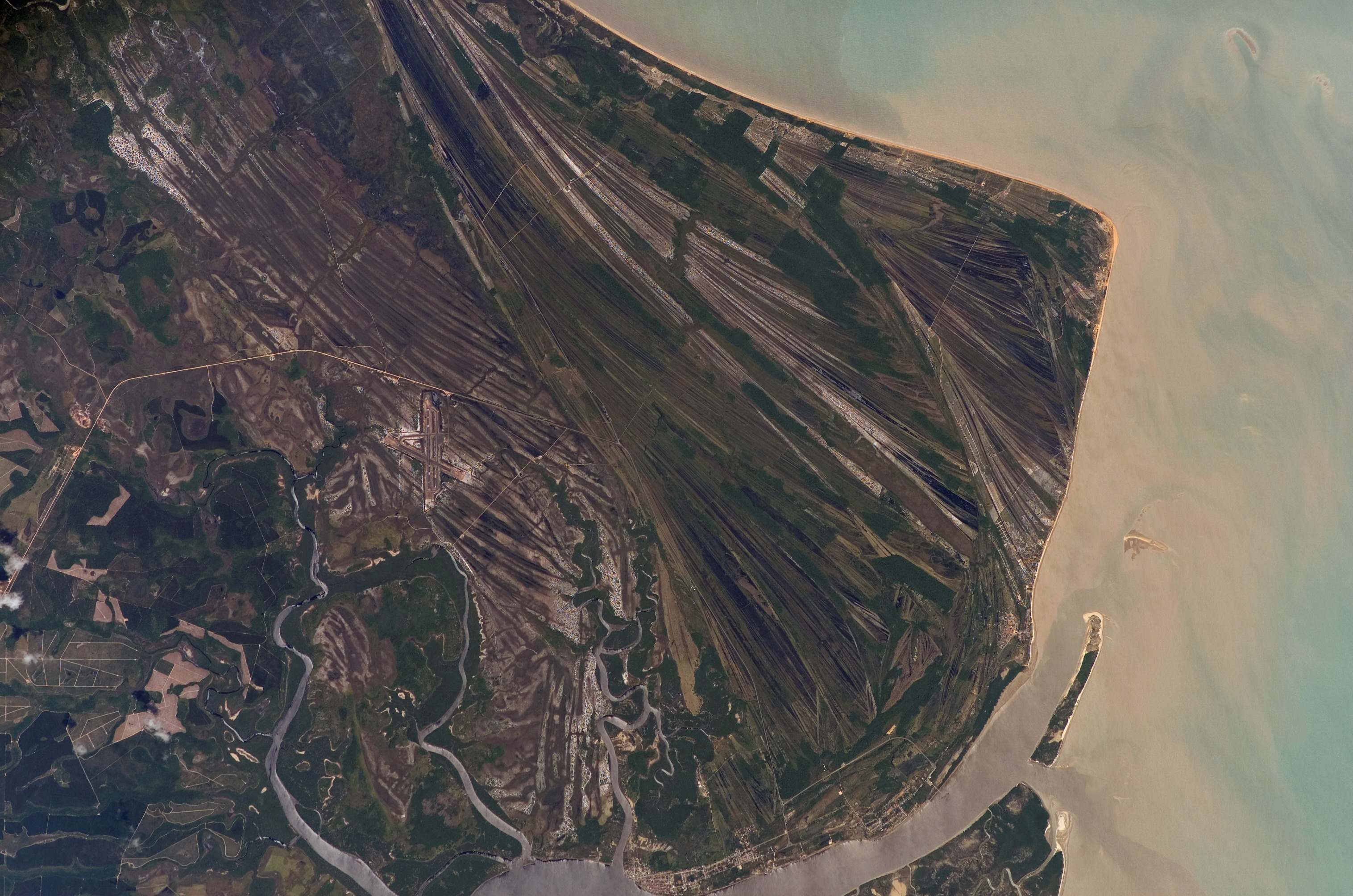 Caravelas strandplain, Bahia Province, Brazil is featured in this image photographed by an Expedition 14 crewmember on the International Space Station. This view highlights a flat coastal landform known as a strandplain, or ancient shoreline. The image is dominated by numerous, fine parallel lines (trending diagonally from upper left to lower right), each of which is an ancient shoreline made up of sand transported from rivers to the north. The strandplain has been generated by these narrow shorelines accumulating against one another, line by line in their dozens or even hundreds, over thousands of years. The shorelines can be grouped into at least four packets depending on the crosscutting relationships - younger packets will cut into or stratigraphically overlay older packets. These relationships indicate that the youngest packet lies nearest the coast (furthest right) and the oldest packet lies north of the city of Caravelas (bottom). The Caravelas River flows into the Atlantic Ocean at the bottom of the view. Sediment from this river, and from the current shoreline, produces the light browns and dun colors visible offshore. On the day this image was taken the river water was relatively clear; clear water (gray) is visible flowing out of the main river mouth, and also off to one side to the south over a levee. The Caravelas airport appears near the middle of the view, and is built on one of the ancient shoreline packets. Caravelas itself, a fishing town of about 20,000 inhabitants, lies on an estuary and was once a flourishing whaling center--the prominent cape at top right is known as Ponta da Baleia (Whale Point).